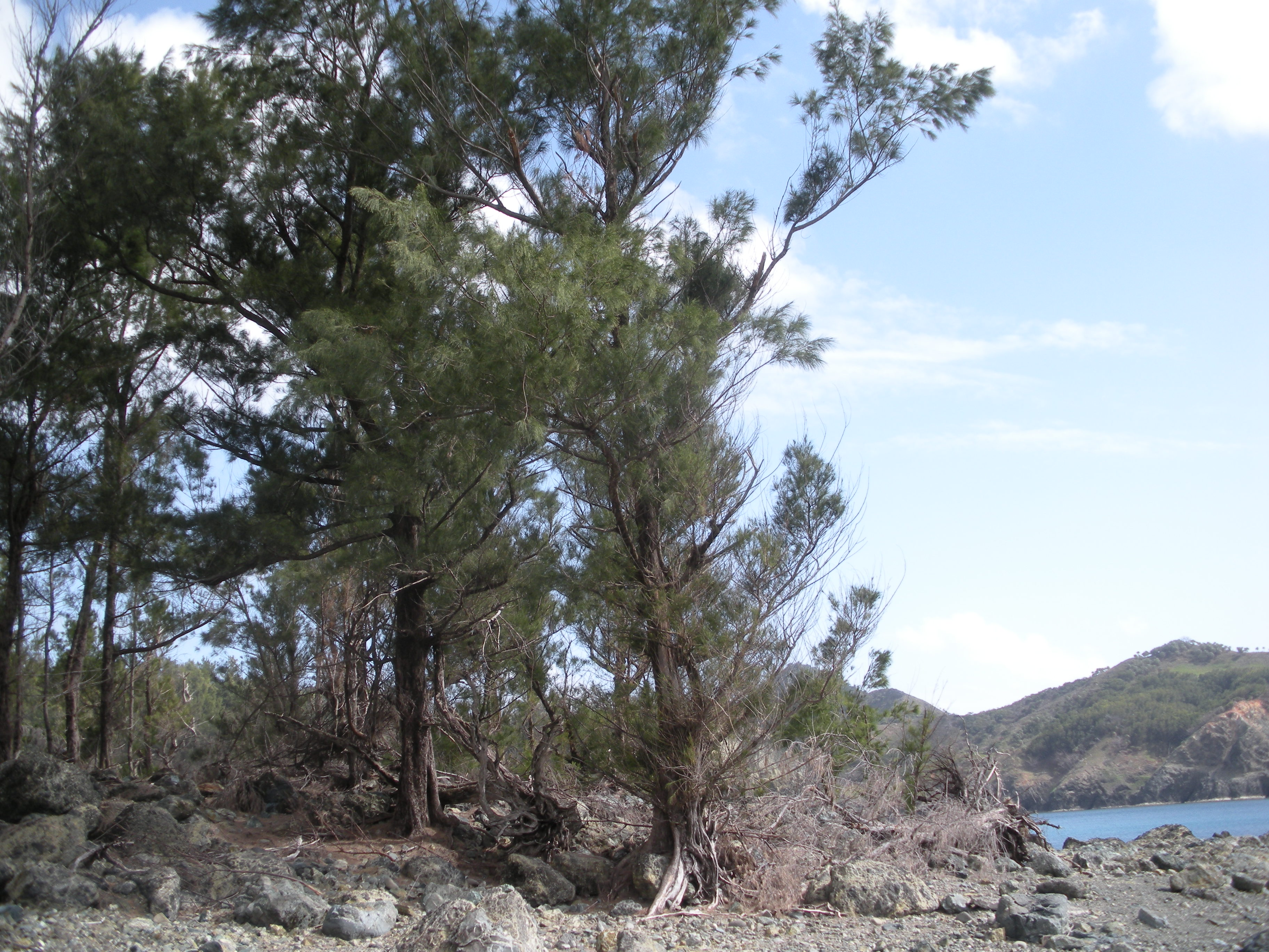 Casuarinaceae in Japan, Ogasawara Islands, Chichijima, Suzaki Coast